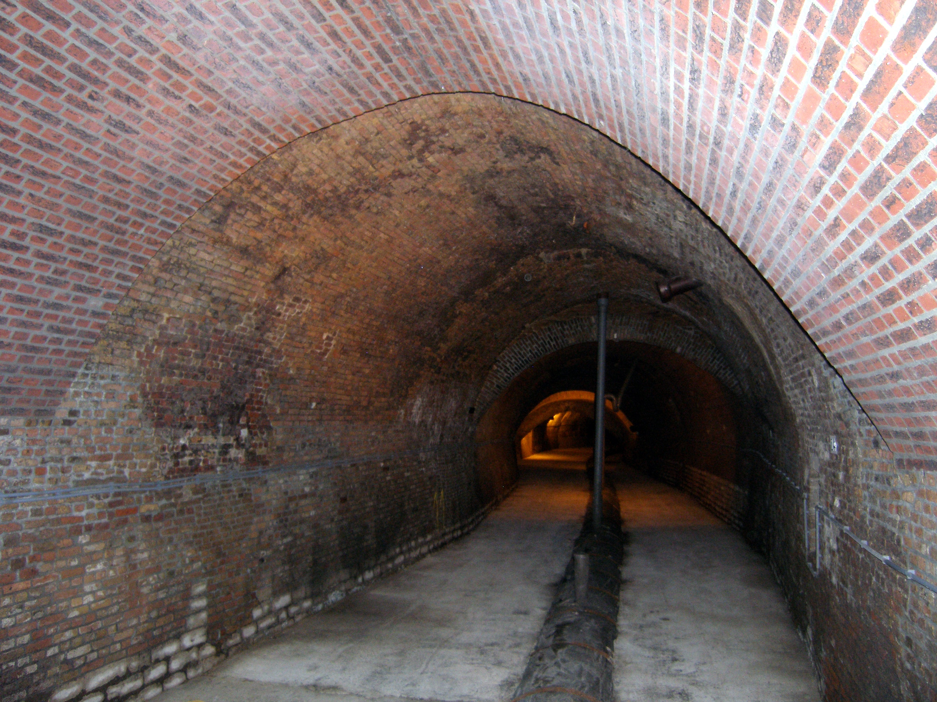 De Grebbe, a sewer in Bergen op Zoom that originates from the 13th century AD. Picture taken near 11 Moeregrebstraat.